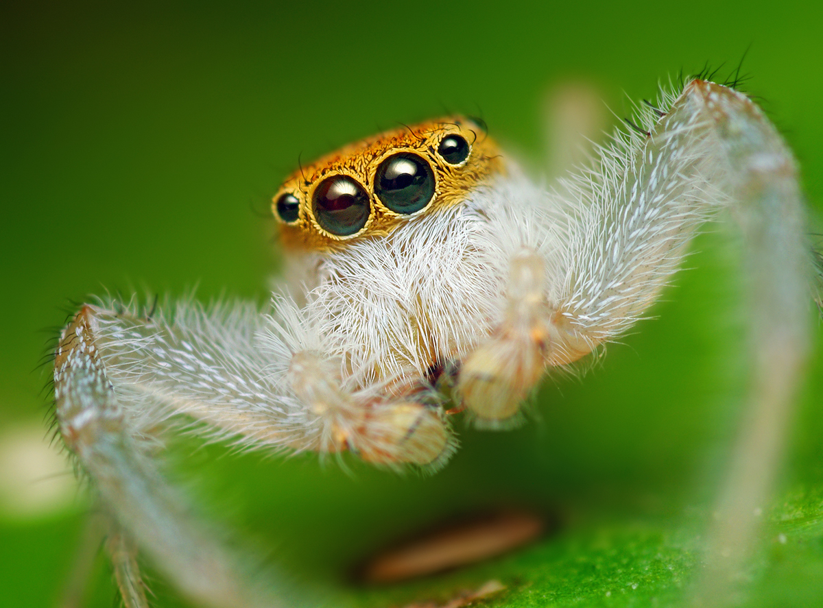 Summer is officially here for me and it seems the jumping spiders are finding me everywhere I go - not a day goes by where I don't find a salticid. I'm almost becoming overwhelmed with the number of spiders I have been finding, but obviously I'm pleased. I missed the bugs so much during the winter - and now they are back, and they are absolutely everywhere! I've taken over 960 photos just since the 13th of May and even a few videos, so you can expect to see more arthropod photos around here in the coming days! I have posted several jumping spiders I have found recently in a comment below. If you would really like to see one of them properly posted, speak up!